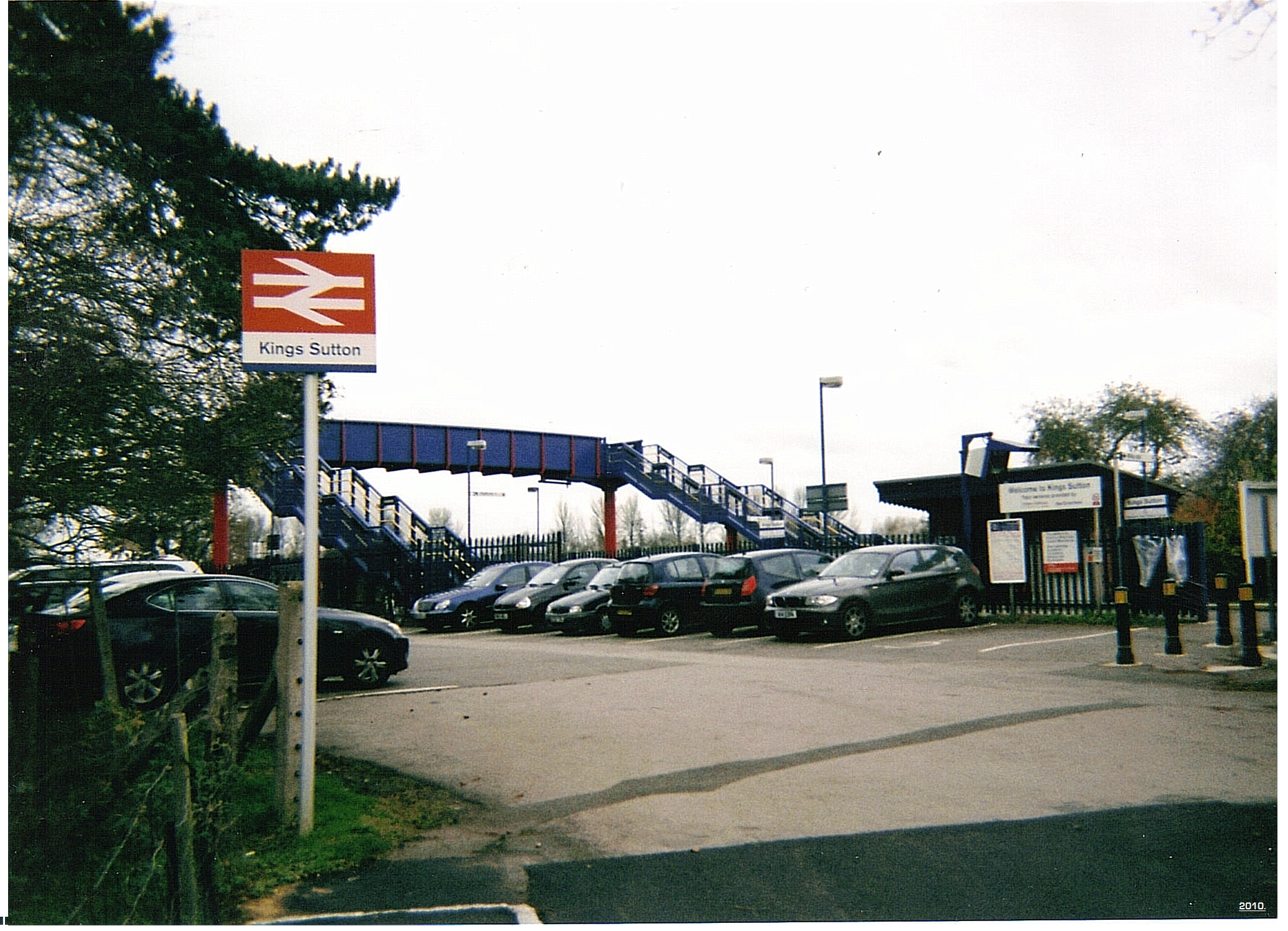 I took this picture of King' Sutton station my self and release it for use on the Wikipeadia and public domain. The picture is date stamped.